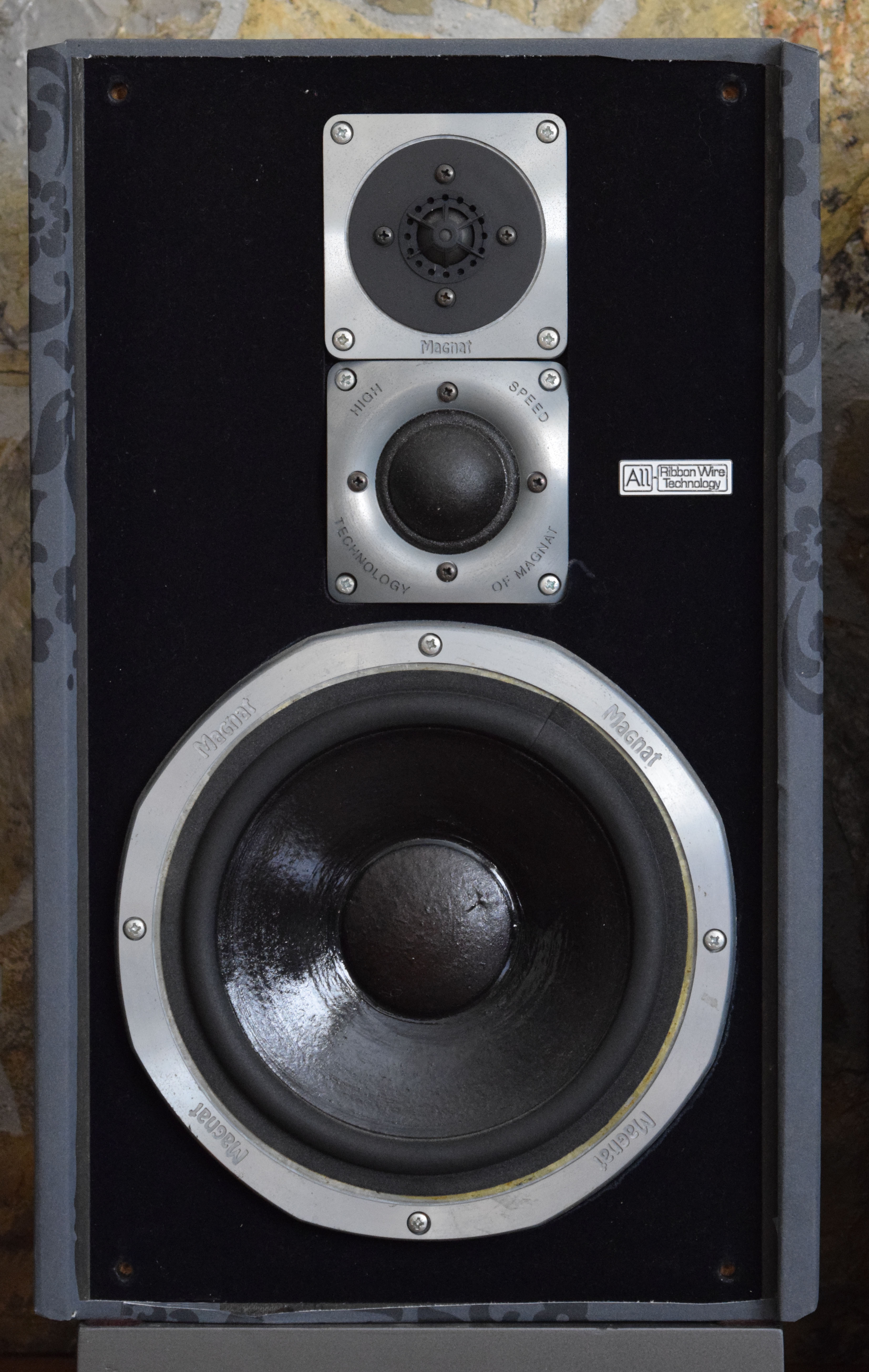 Magnat All Ribbon Wire Loudspeaker